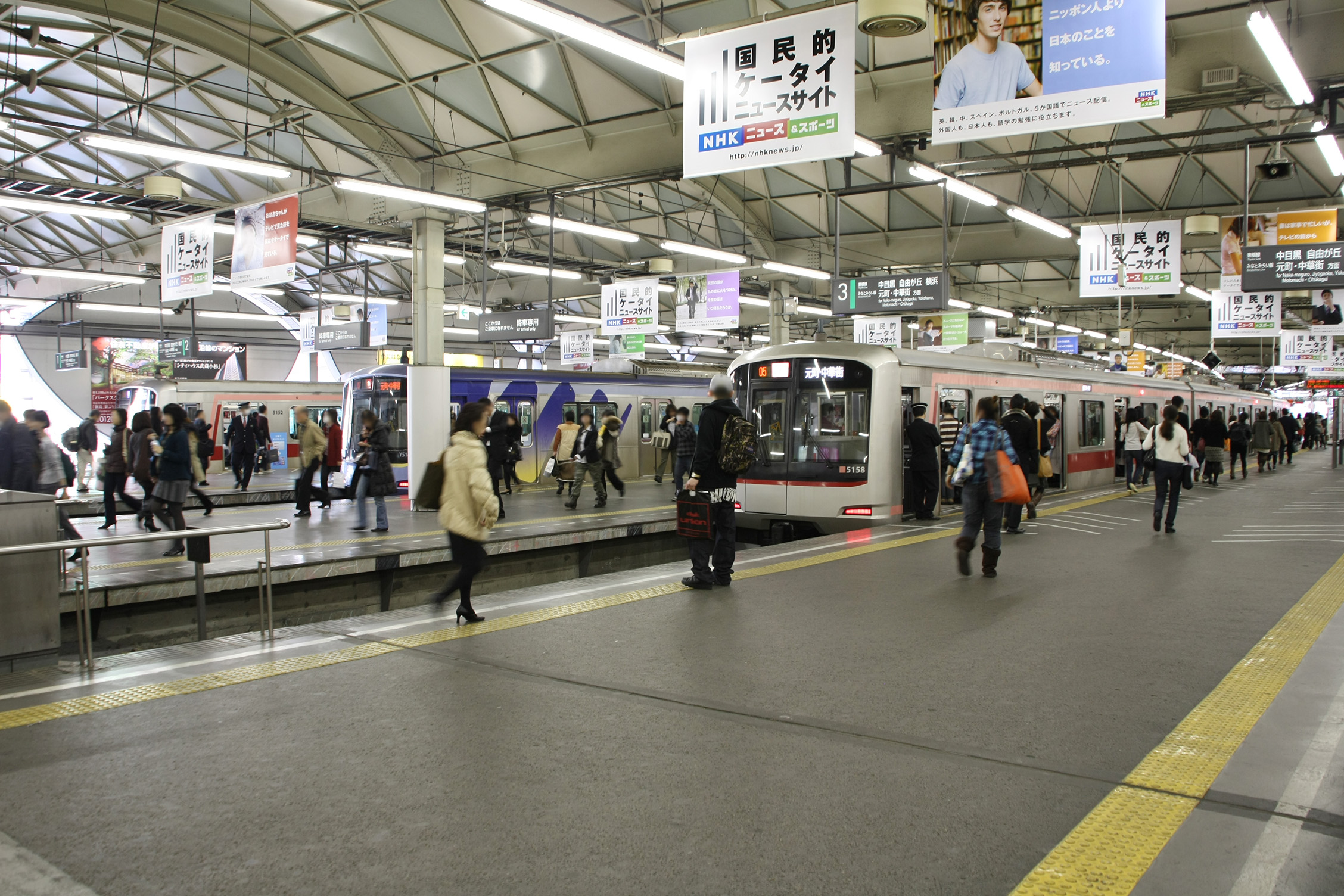 Shibuya Station Tokoyo-Line Platform